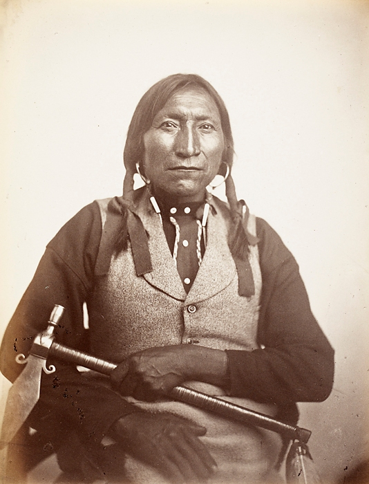 Lone Wolf Portrait of Chief Guipago (Lone Wolf) wearing Blanket and Ornaments and holding Pipe-Tomahawk 1870.